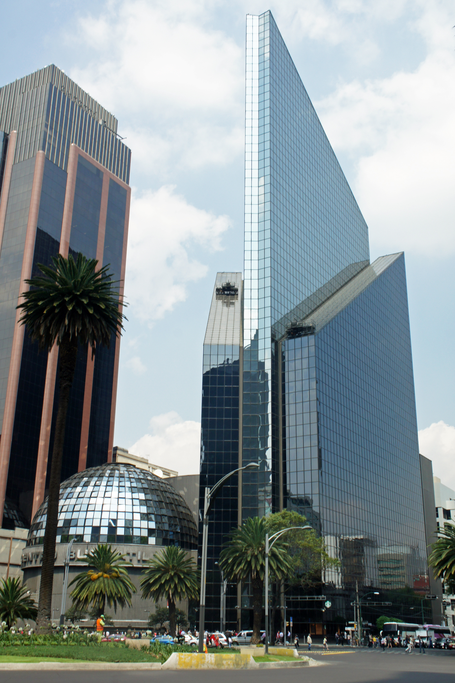 Mexican Stock Exchange, Paseo de la Reforma, Mexico DF